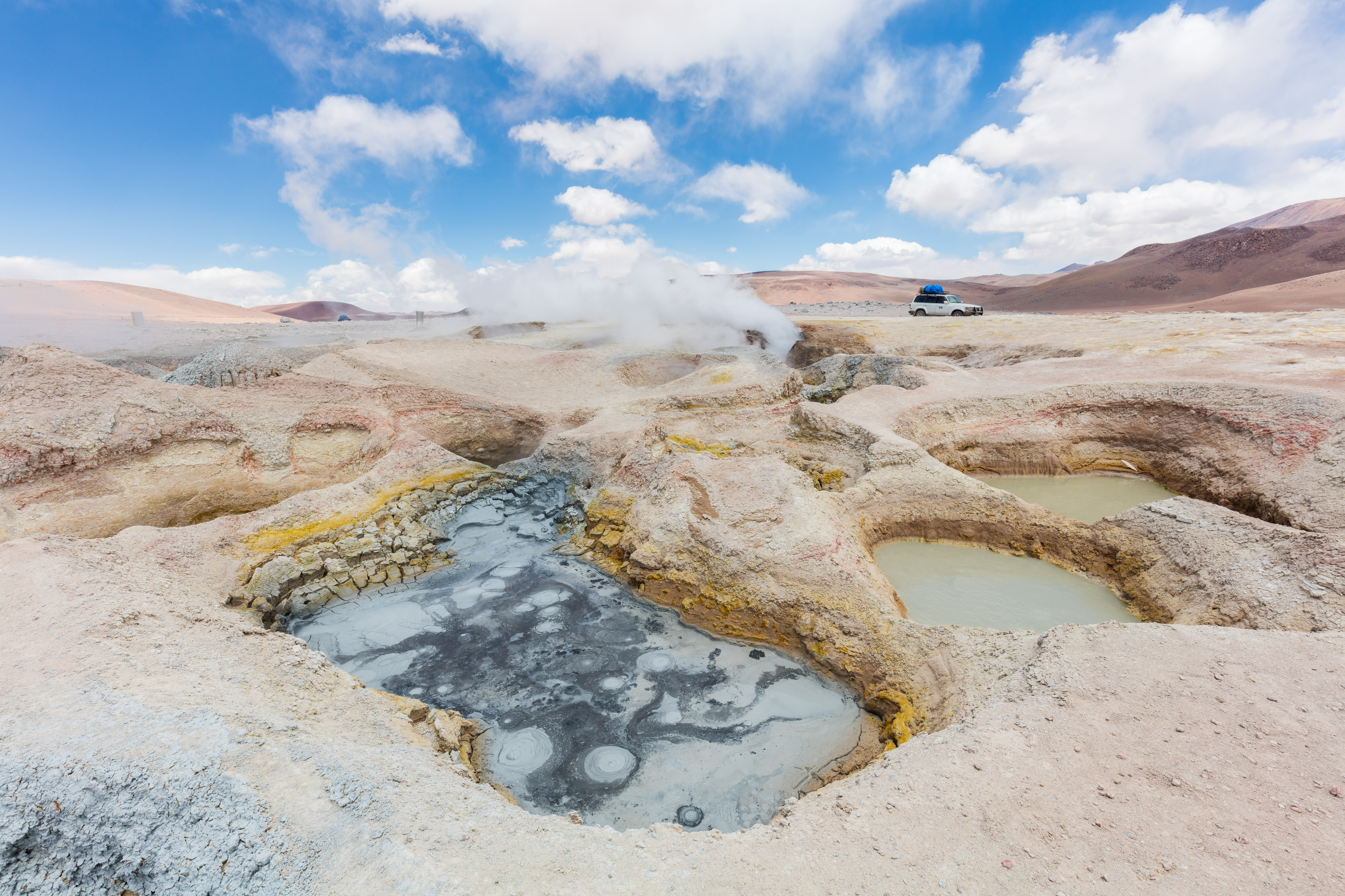 Geysers Sol de Mañana, Bolivia